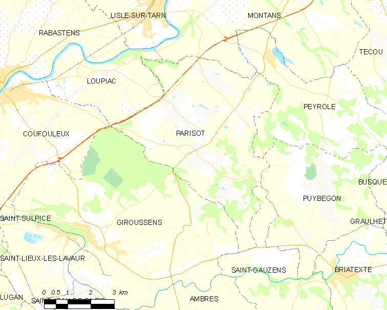 Map of French municipality Parisot